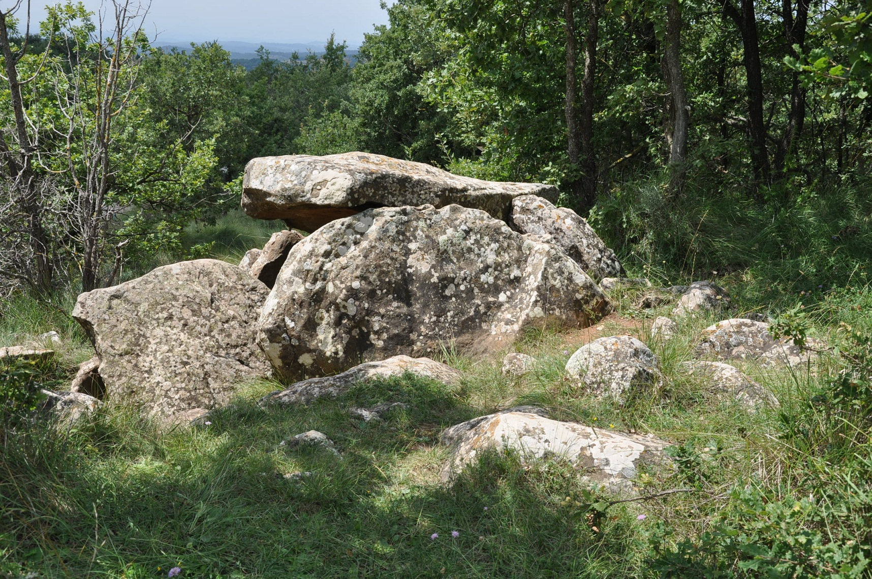 A megalithic tomb (dolmen) just below the summit of the Puig Rodó (1056 m, Moià, Comarca de Bages, Catalonia, Spain).